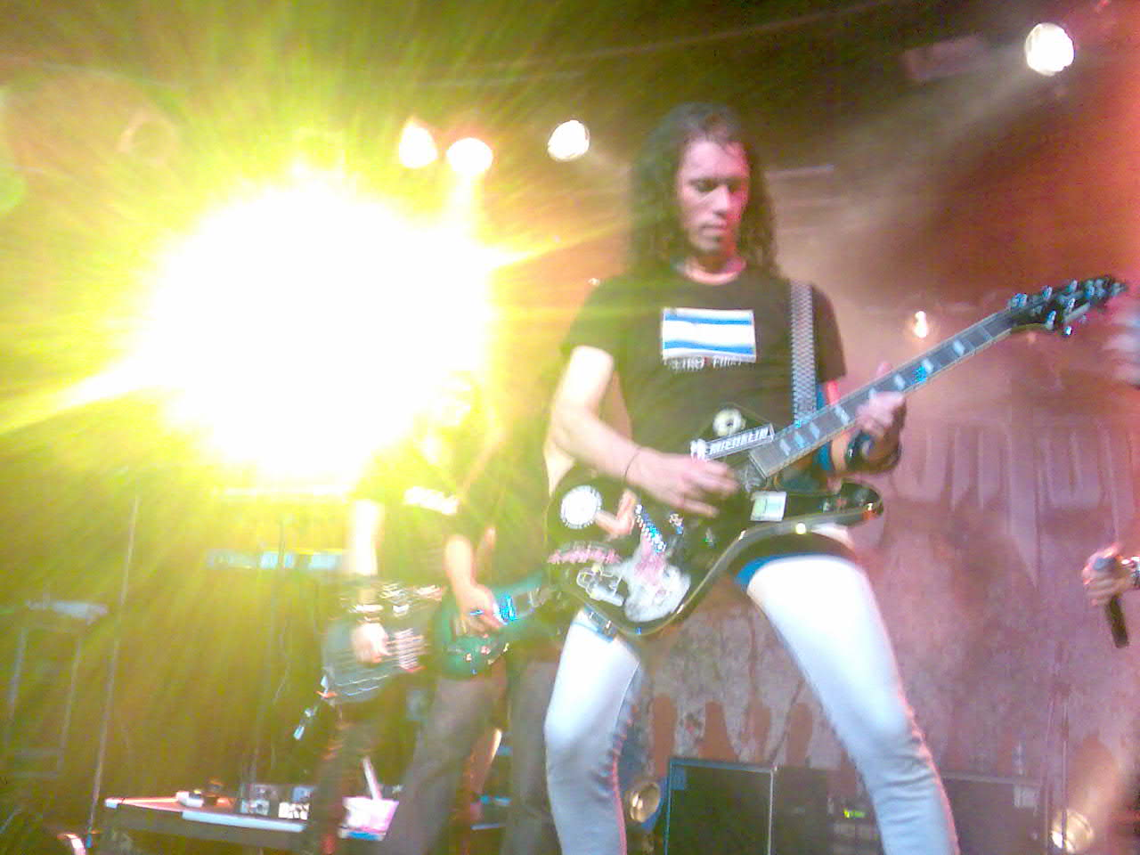 Sam Totman playing an Ibanez Iceman while performing live in Sydney.